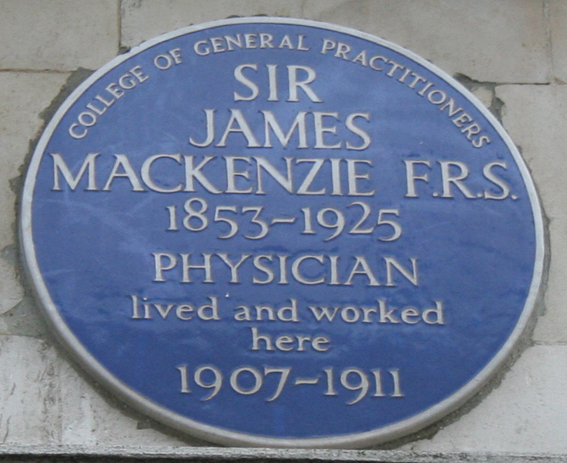 Blue plaque to Sir James Mackenzie on an apartment building at 17 Bentinck Street, Marylebone, London W1U 2ES